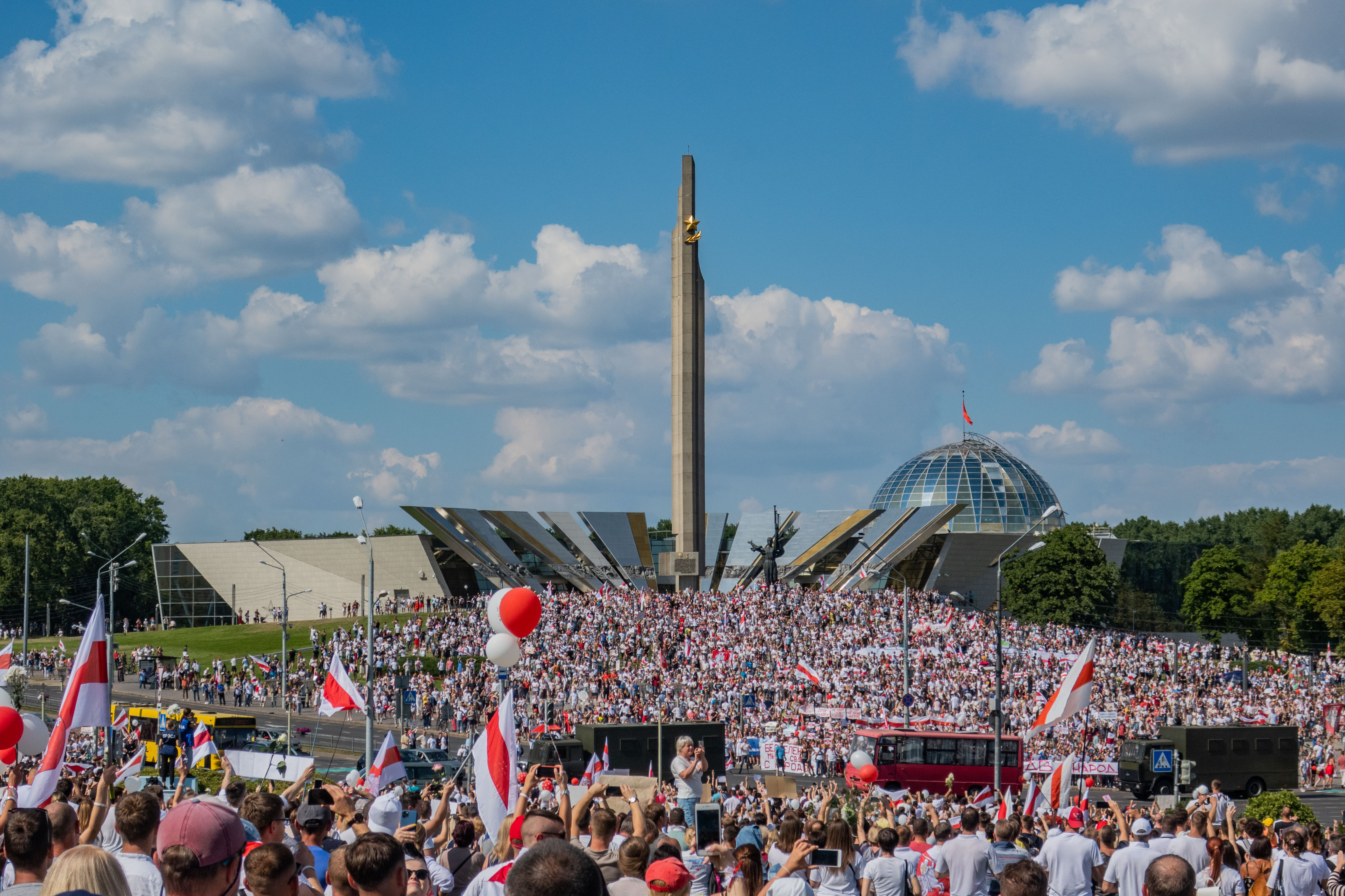 Protest rally against Lukashenko, 16 August. Minsk, Belarus